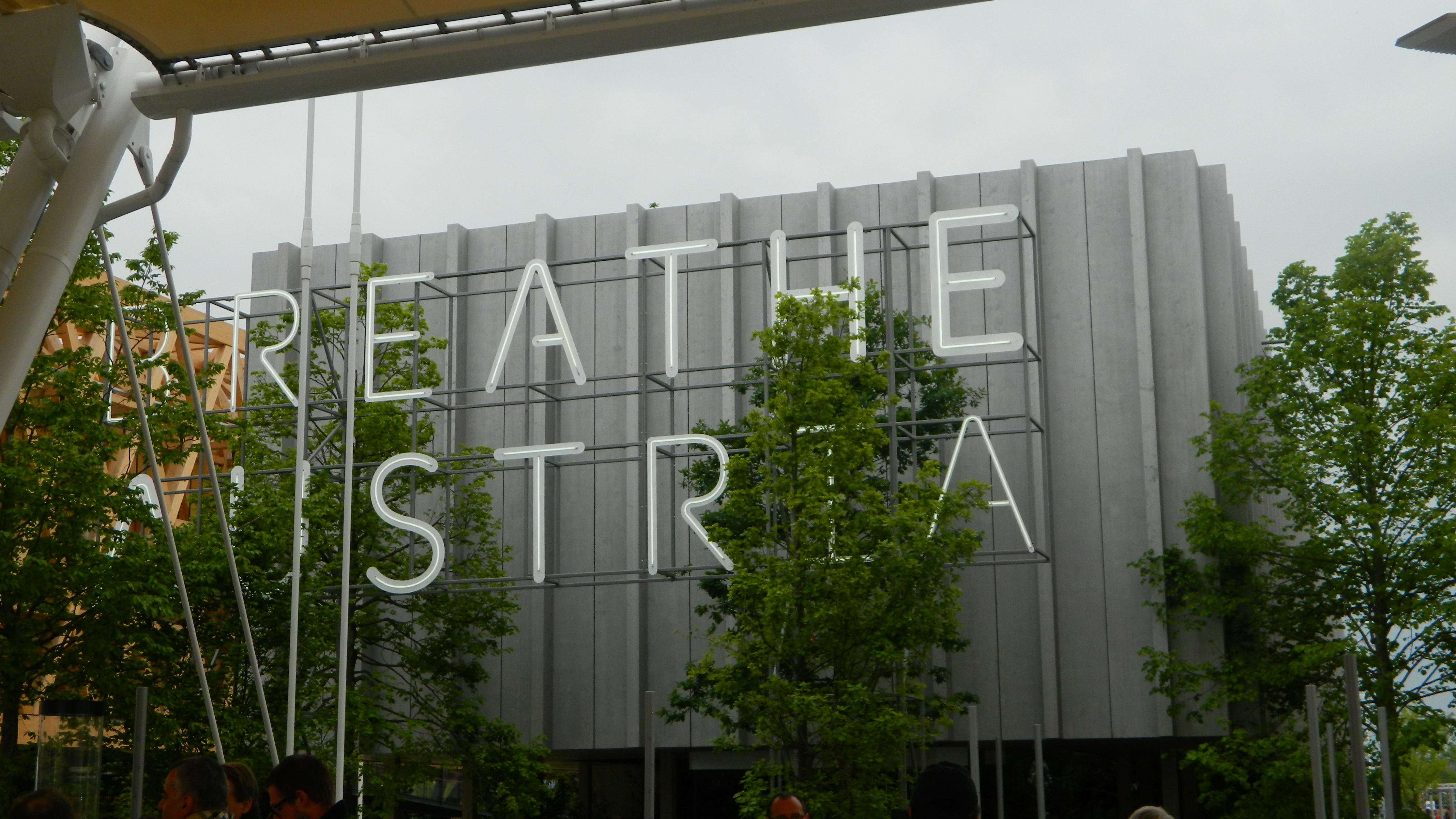 Austria Pavilion at Expo 2015 Milano